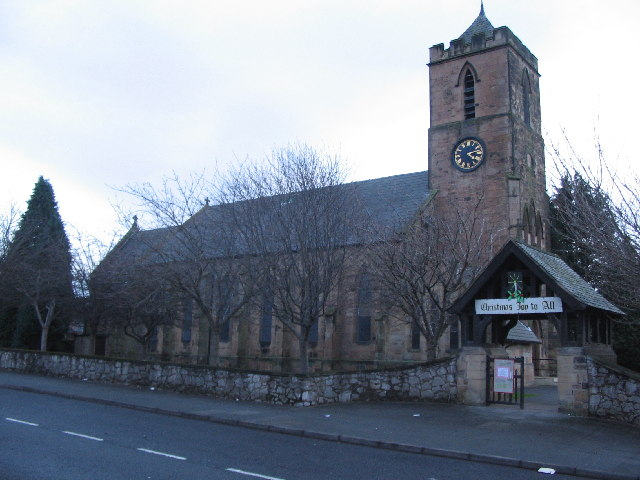 St Marks Church, Connahs Quay